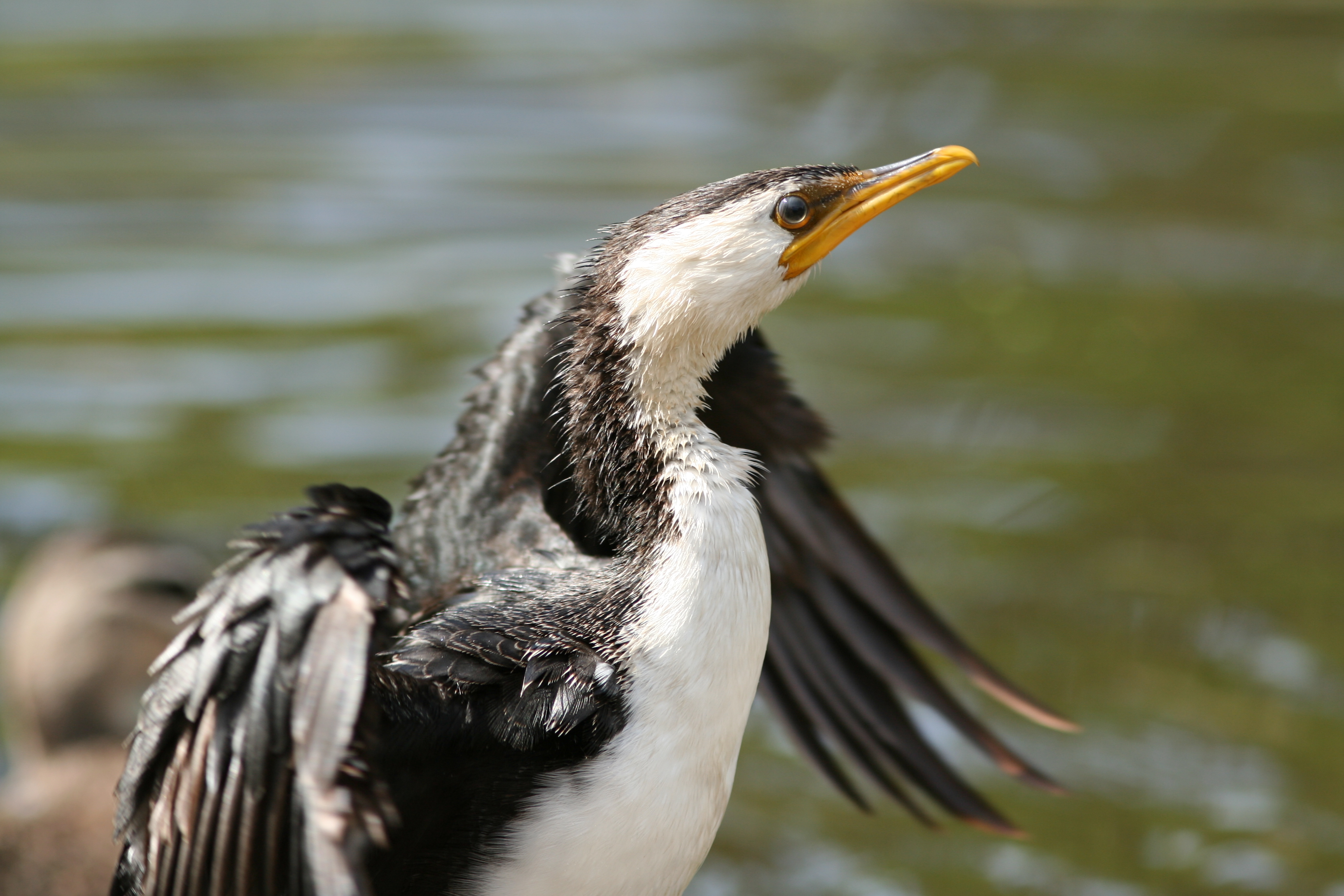 Little Pied Cormorant, Phalacrocorax melanoleucos